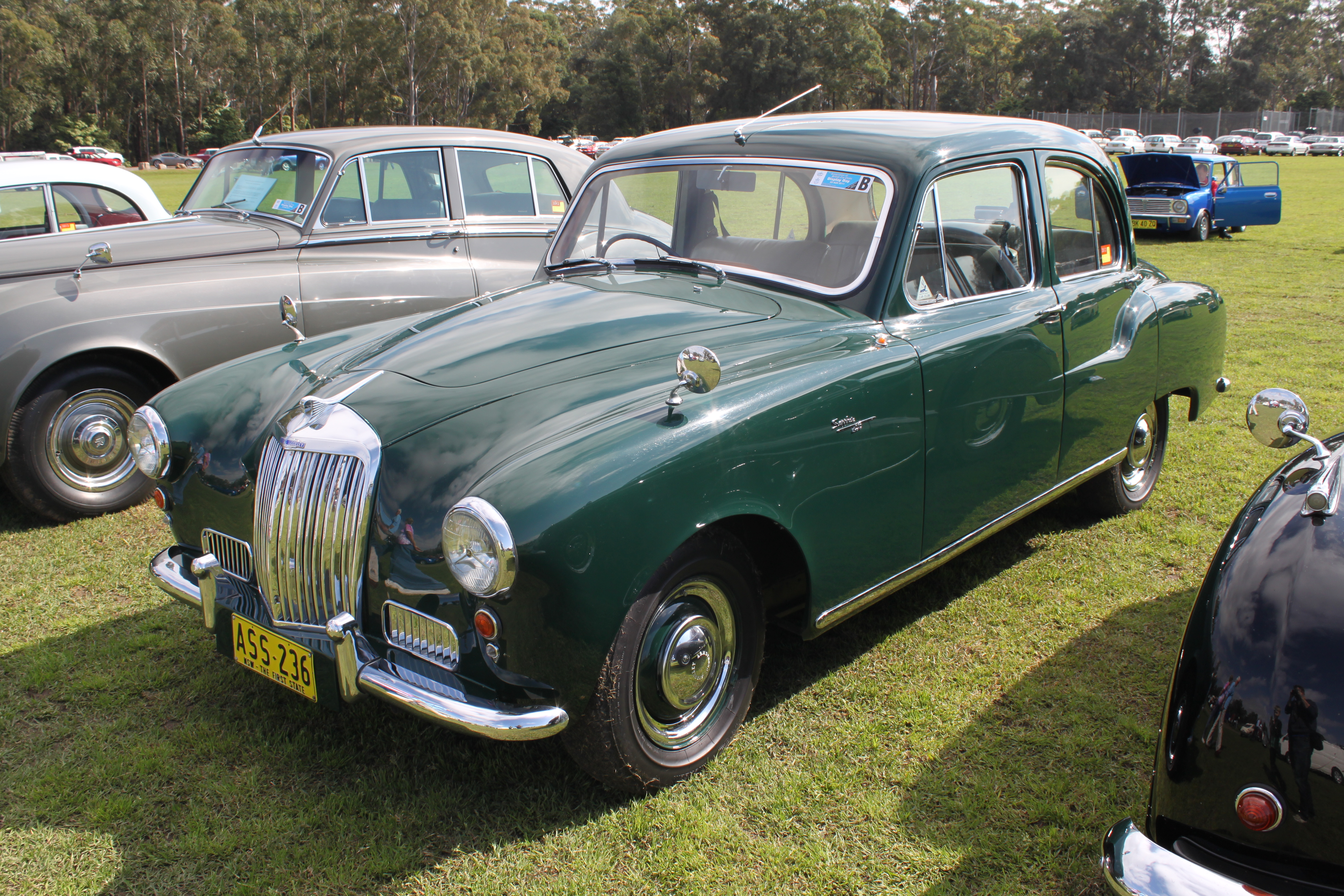 Armstrong Siddeley Sapphire